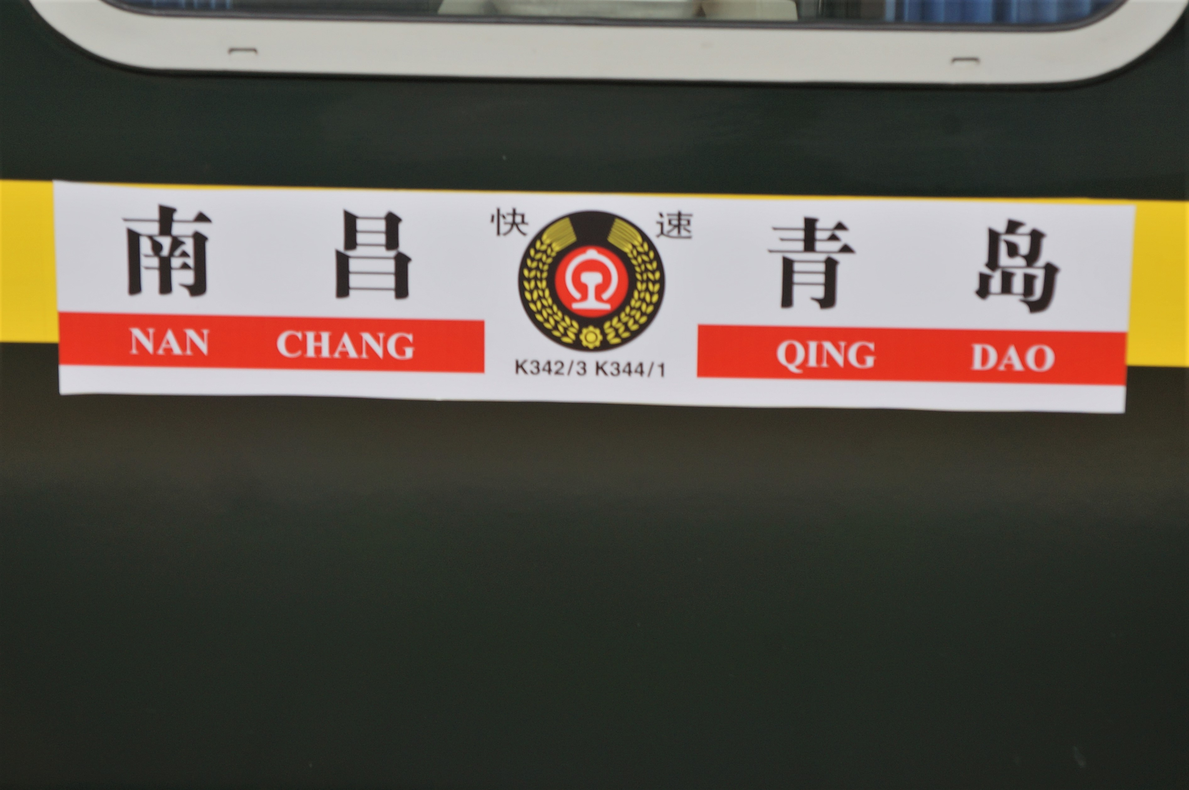 Taken at Nanchang Station